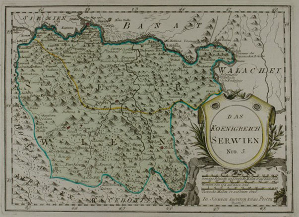 Das Koenigreich Serwien, map of Habsburg-occupied Serbia (1788–92) made by Franz Johann Joseph von Reilly in 1791.